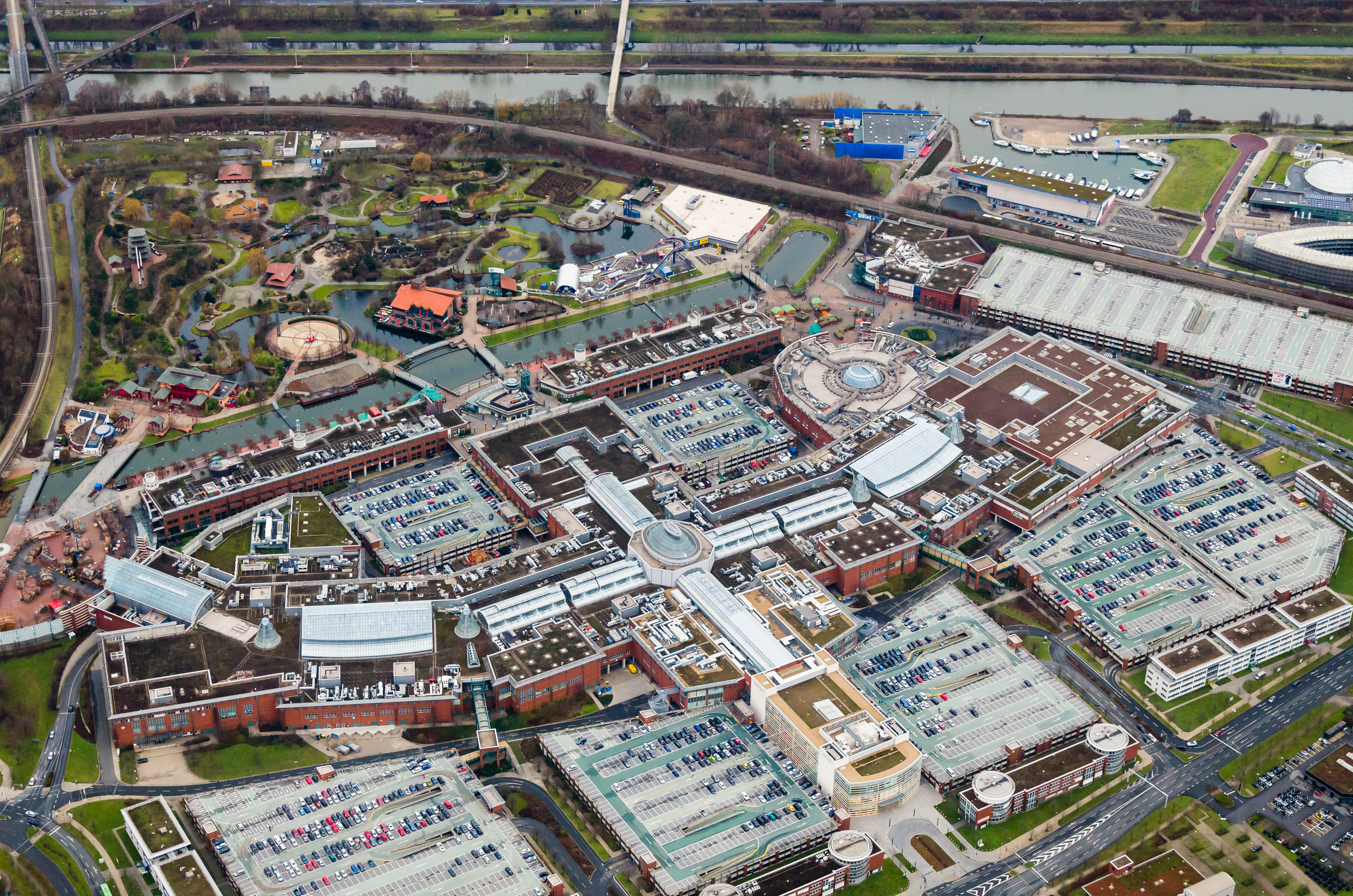 Aerial photograph of CentrO Europe's largest shopping and recreation center, direction of view N